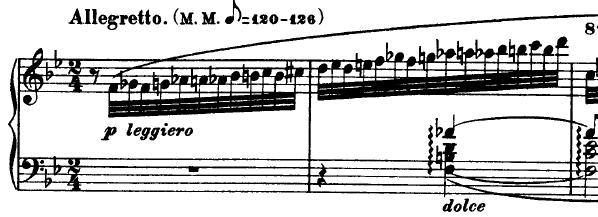 Beginning of the Transcendental Étude No. 5, "Feux Follets", by Franz Liszt.